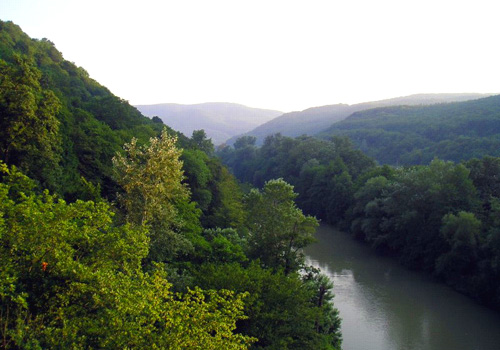 A gorge near Goryachy Klyuch, in the Western Caucasus, Krasnodar Krai, Southern Russia.